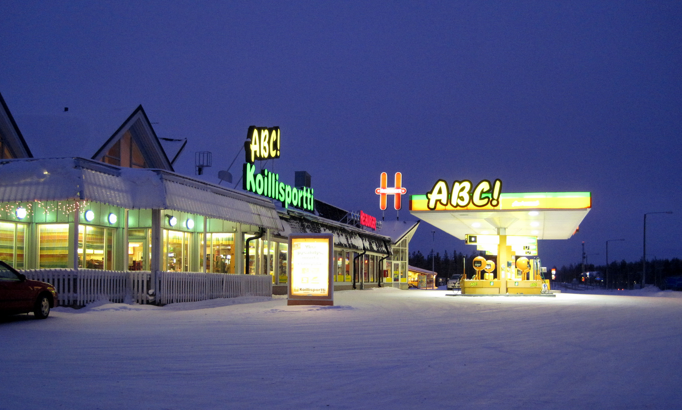 ABC Koillisportti service station in Pudasjärvi, Finland.